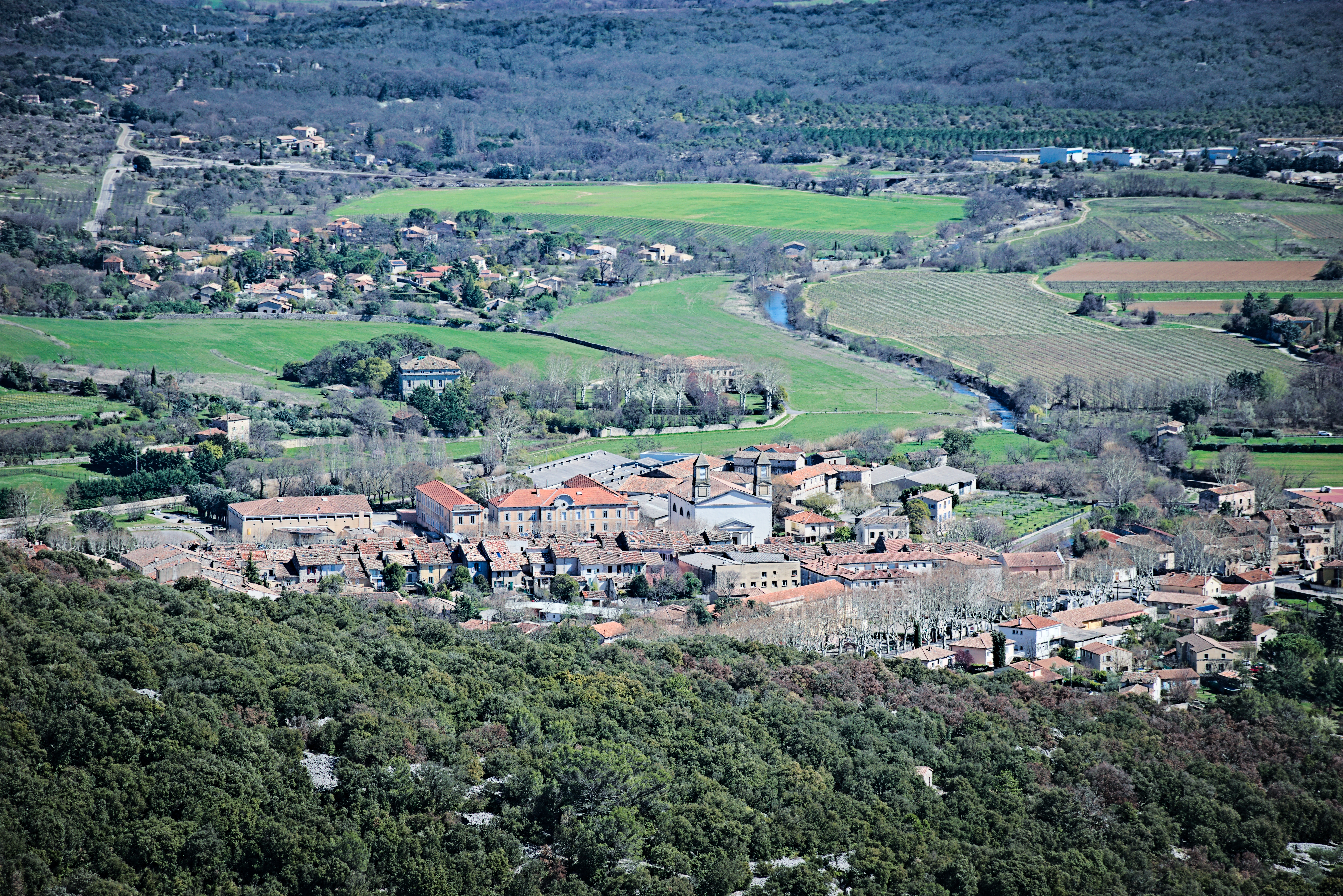 The commune of Saint-Hippolyte-du-Fort since the Pic de Midi. In the centre you can see the Protestant temple (one of the largest in France with its 600m²).